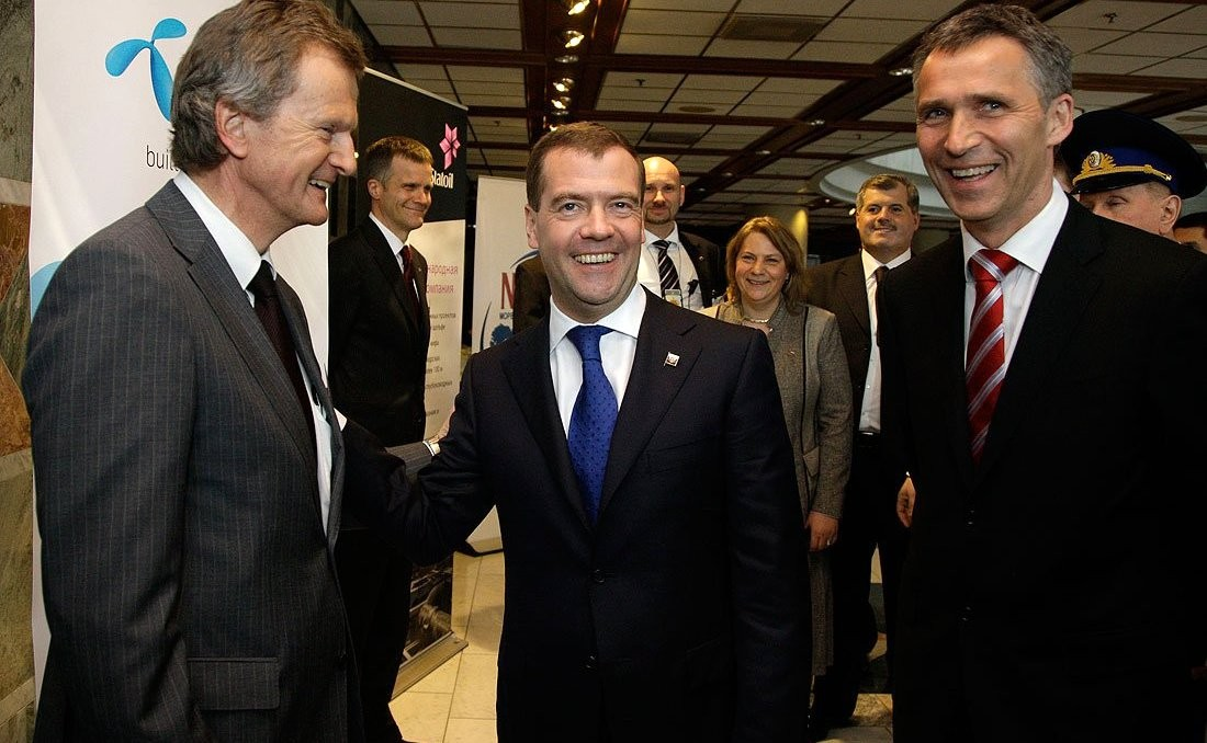 President Dmitry Medvedev's two-day state visit to Norway 26.-27. April 2010. At Russian-Norwegian business conference, Oslo. Dmitry Medvedev participated in Russian-Norwegian business conference, with prime minister of Norway Jens Stoltenberg (right) and Telenor president and chief executive officer Jon Fredrik Baksaas.